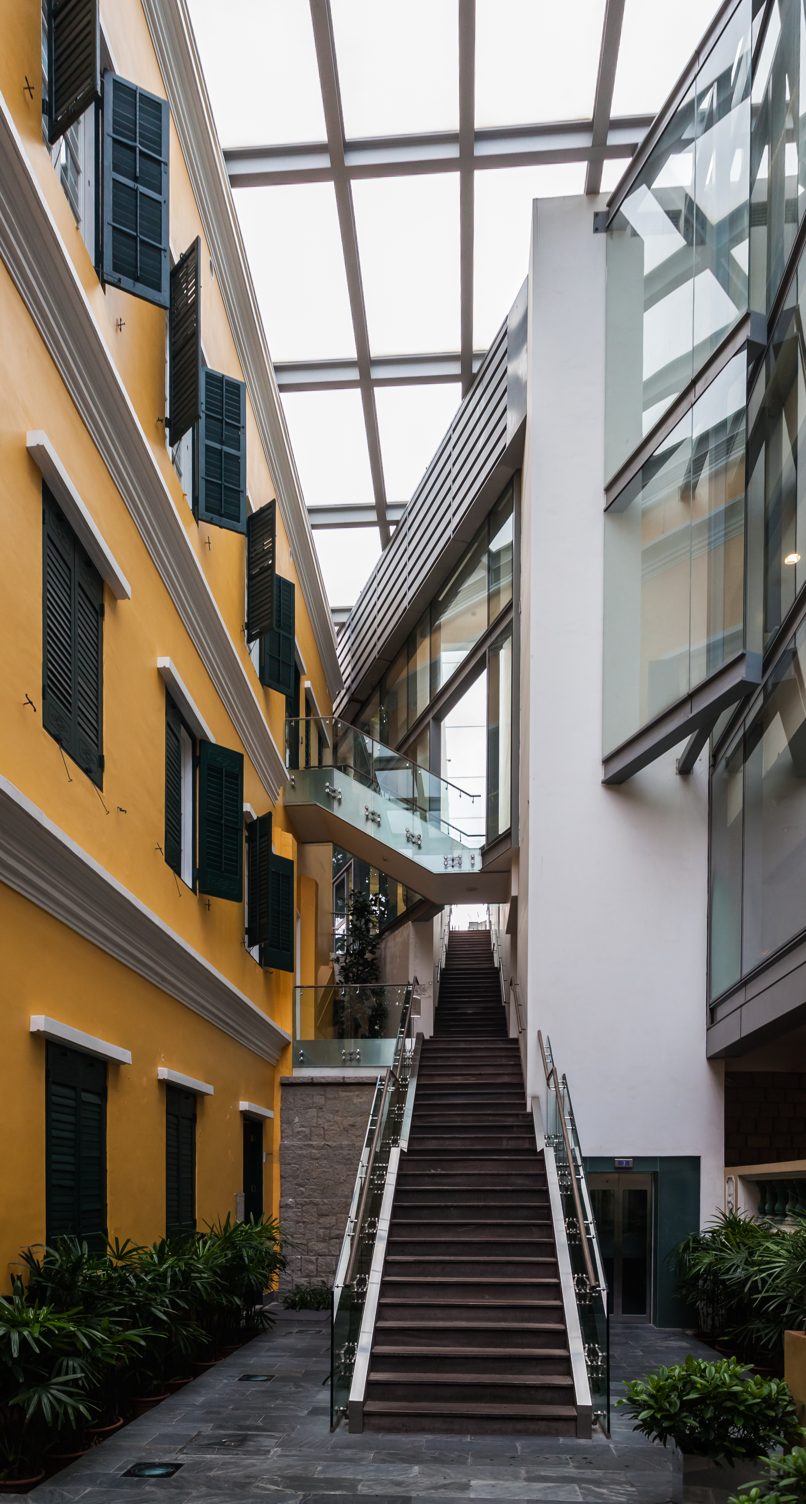 Robert Ho Tung Library, Macau